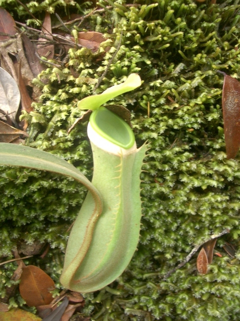 Nepenthes albomarginata